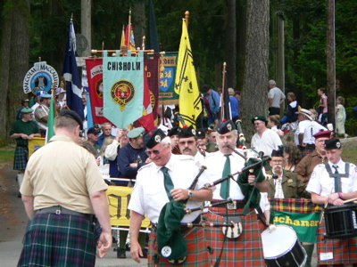 The clans assembly prior to the parade of clans at the opening ceremonies of the 2005 Tacoma Highland Games.